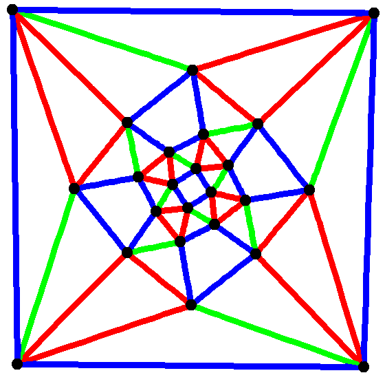 Schlegel diagram